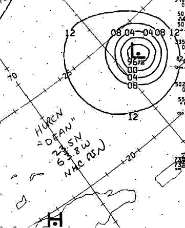 This subsection of the North American Surface Analysis of August 5, 1989 at 6z shows a depiction of Hurricane Dean northeast of the Greater Antilles